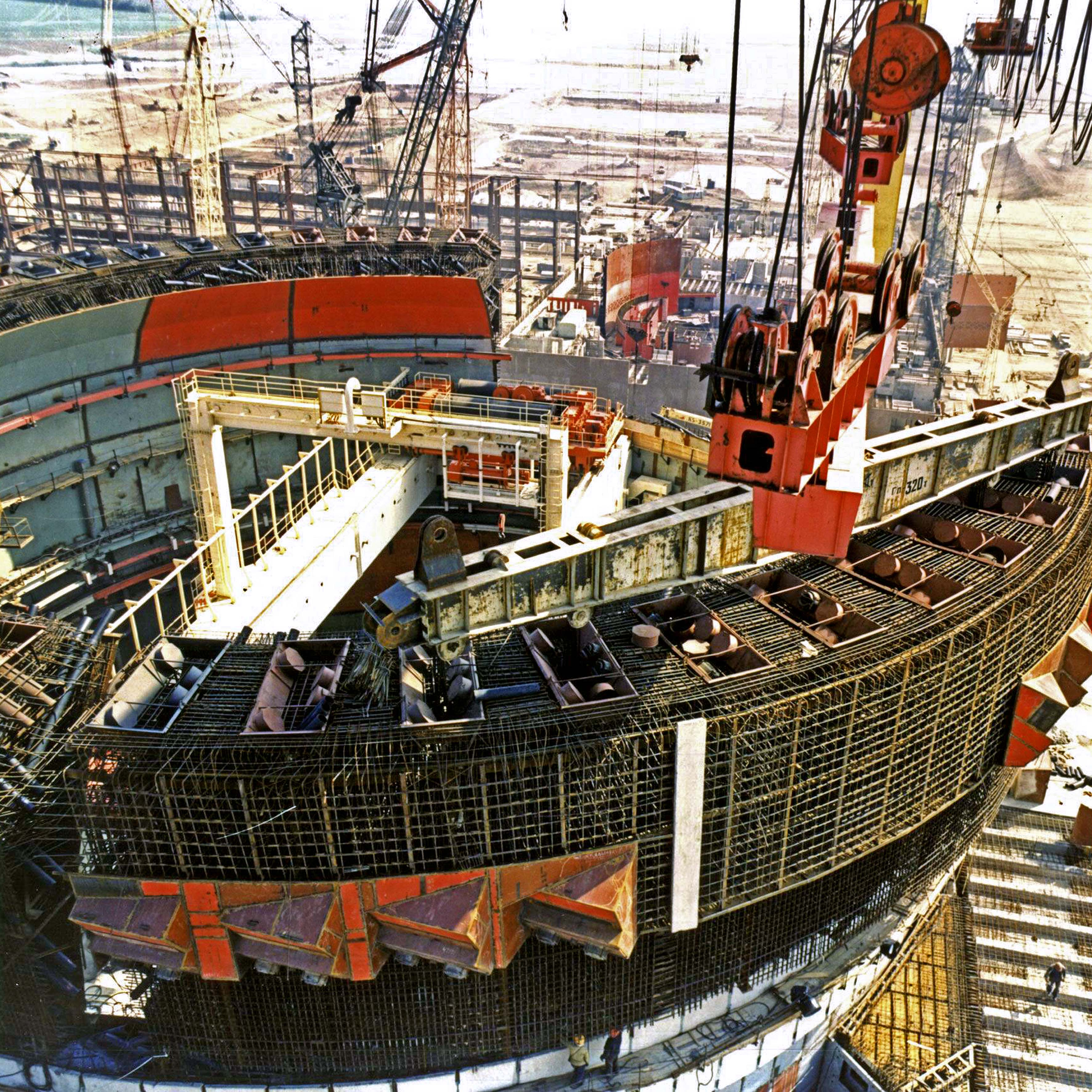 A unit of the Balakovo Nuclear Power Plant under construction